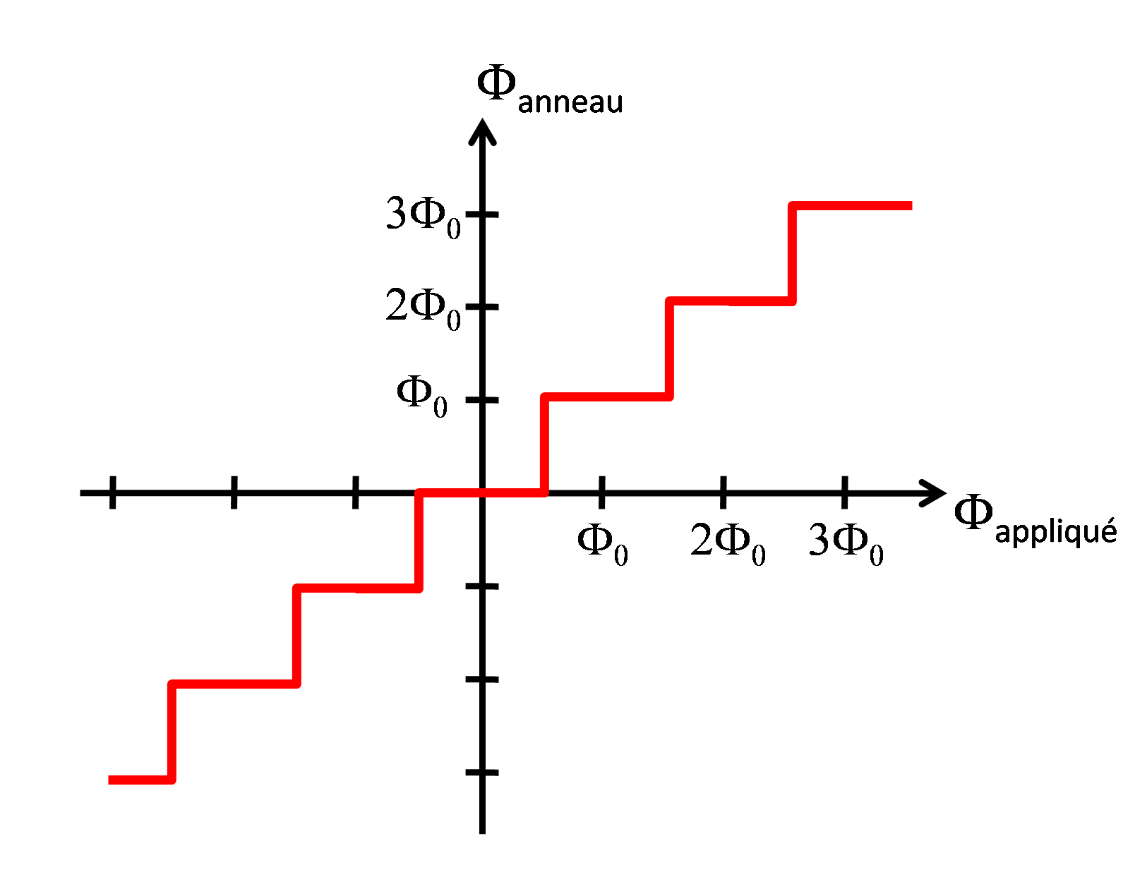 flux quantization in a superconducting ring